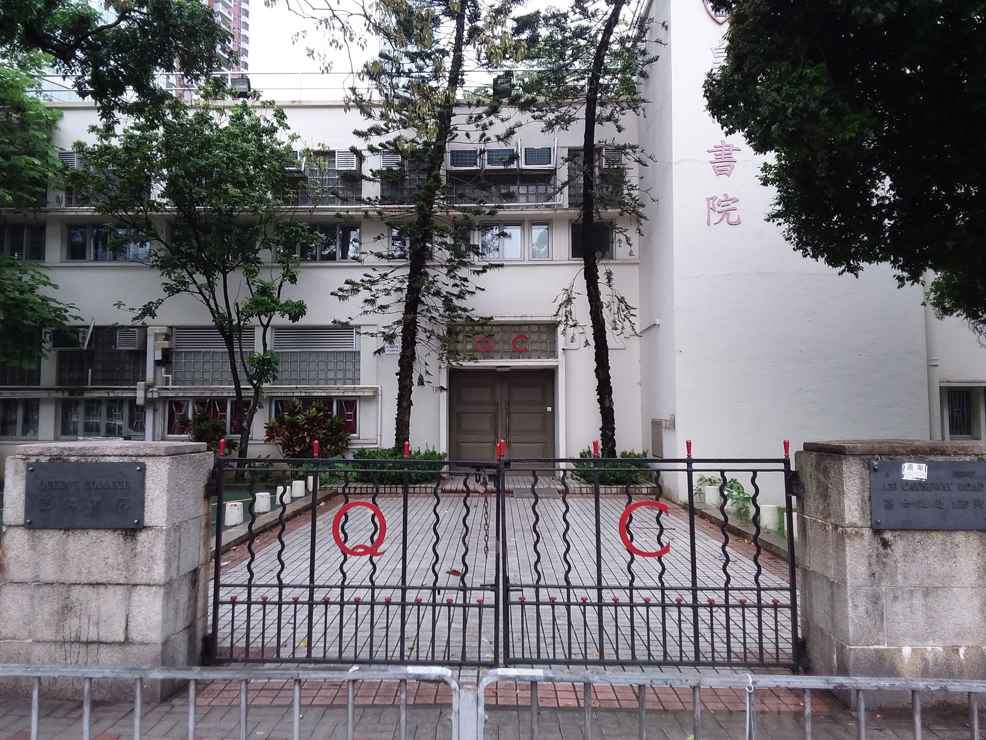 HK CWB 銅鑼灣 Causeway Bay 高士威道 Causeway Road 皇仁書院 Queen's College in August 2019